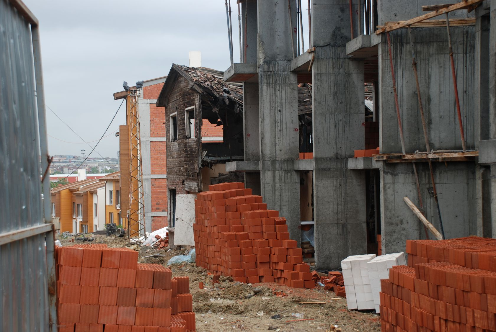 Sulukule, Istanbul, urban transformation